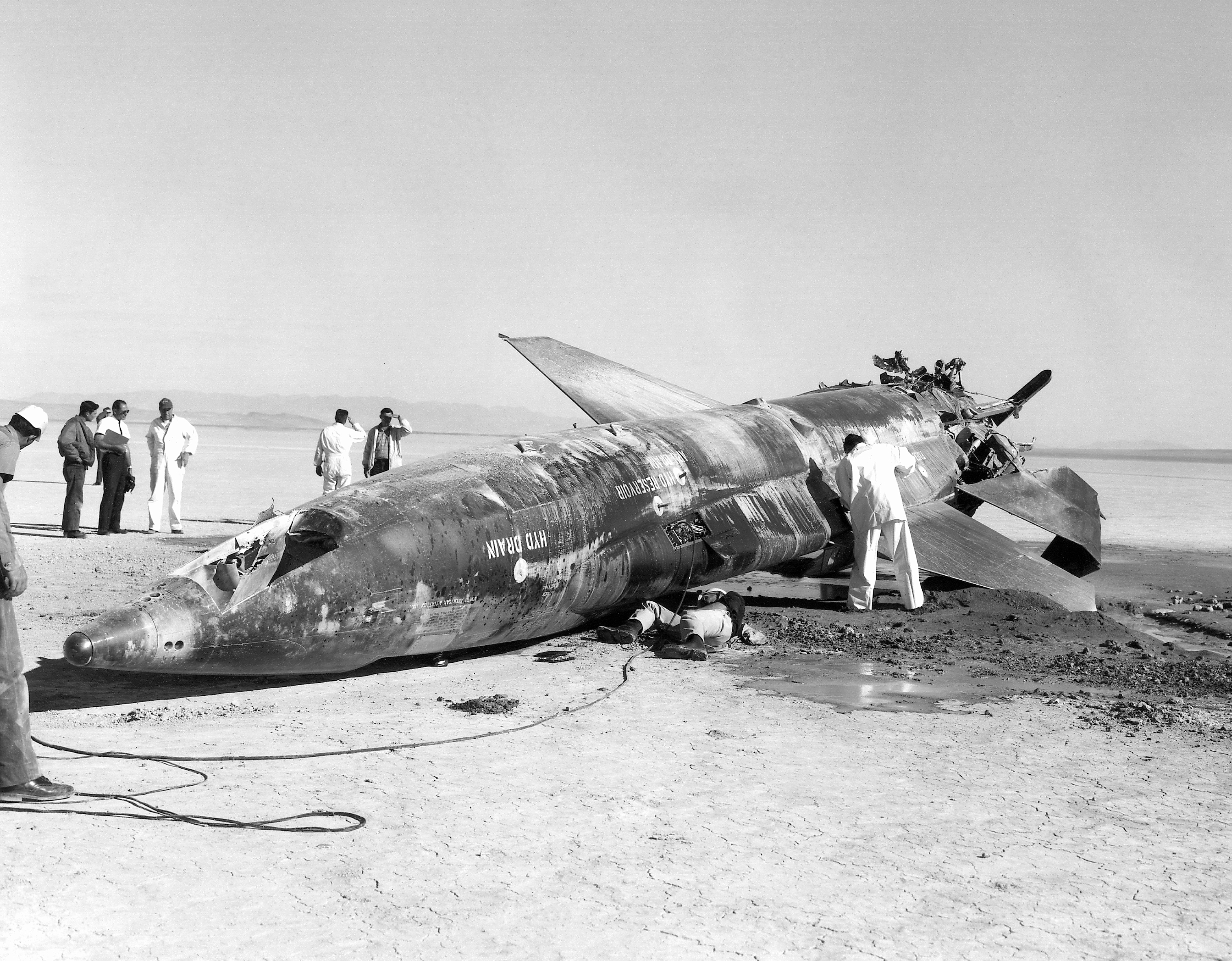 On November 9, 1962, an engine failure forced Jack McKay, a NASA research pilot, to make an emergency landing at Mud Lake, Nevada, in the second X-15. The aircraft's landing gear collapsed and the X-15 flipped over on its back. McKay was promptly rescued by an Air Force medical team standing by near the launch site, and eventually recovered to fly the X-15 again. But his injuries, more serious than at first thought, eventually forced his retirement from NASA. The aircraft was sent back to the manufacturer, where it underwent extensive repairs and modifications. It returned to Edwards in February 1964 as the X-15A-2, with a longer fuselage (52 ft 5 in) and external fuel tanks.The basic X-15 was a rocket-powered aircraft 50 ft long with a wingspan of 22 ft. It was a missile-shaped vehicle with an unusual wedge-shaped vertical tail, thin stubby wings, and unique side fairings that extended along the side of the fuselage.